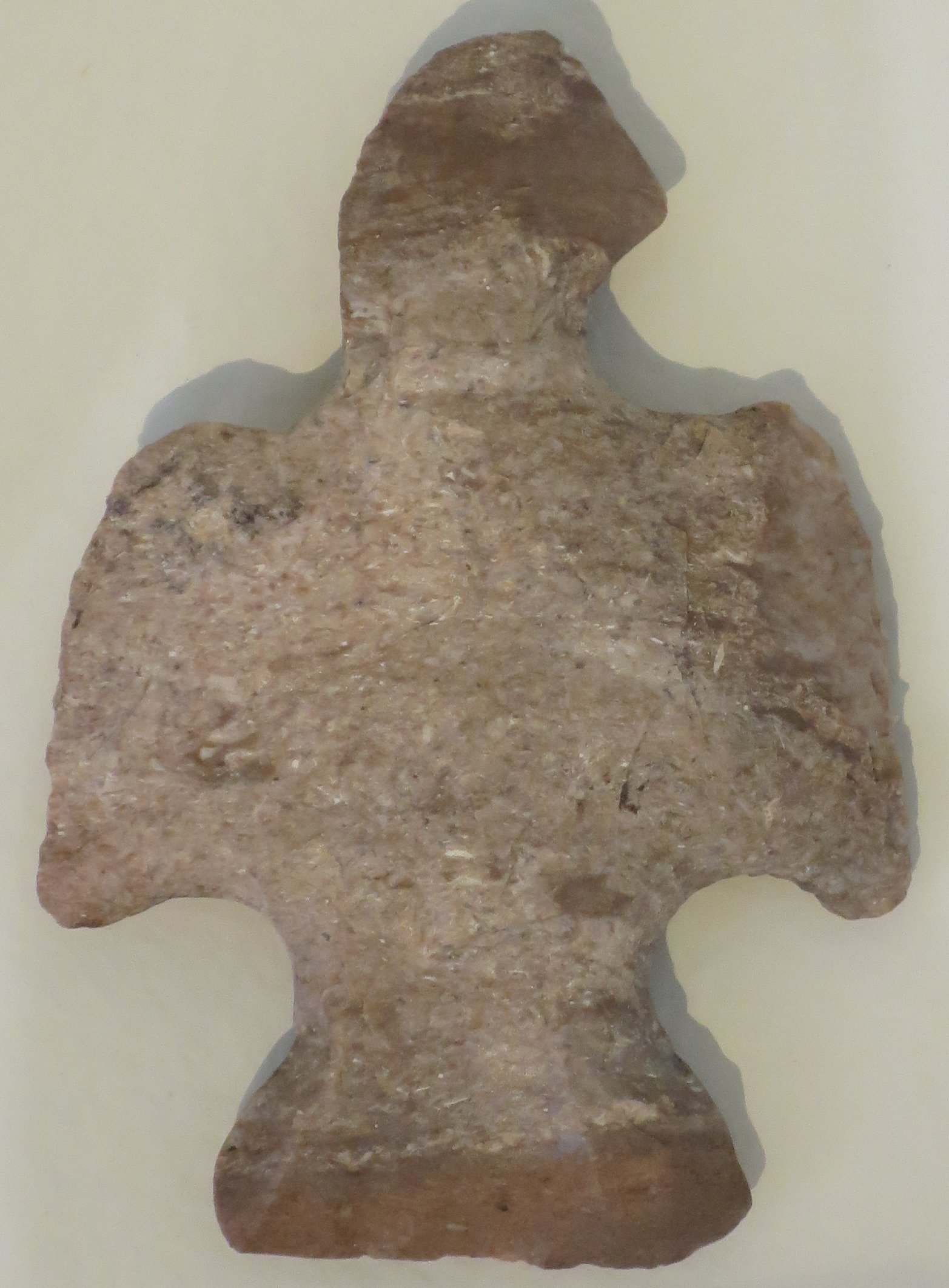 Native American bird-shaped fetish stone, northeast woodlands/Great Lakes/plains, flaked banded light brown stone, Honolulu Museum of Art accession 2014-3-09